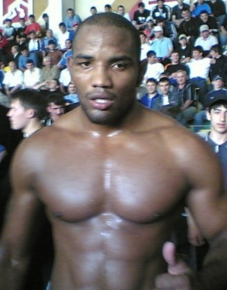 Yoel Romero in Makhachkala